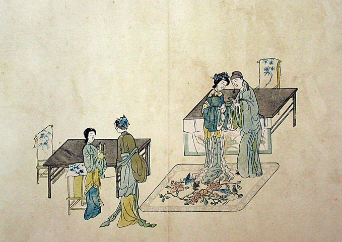 Zhang Junrui visits Mistress Cui and her daughter Yingying, from Min Qiji’s album „The Romance of the Western Chamber“